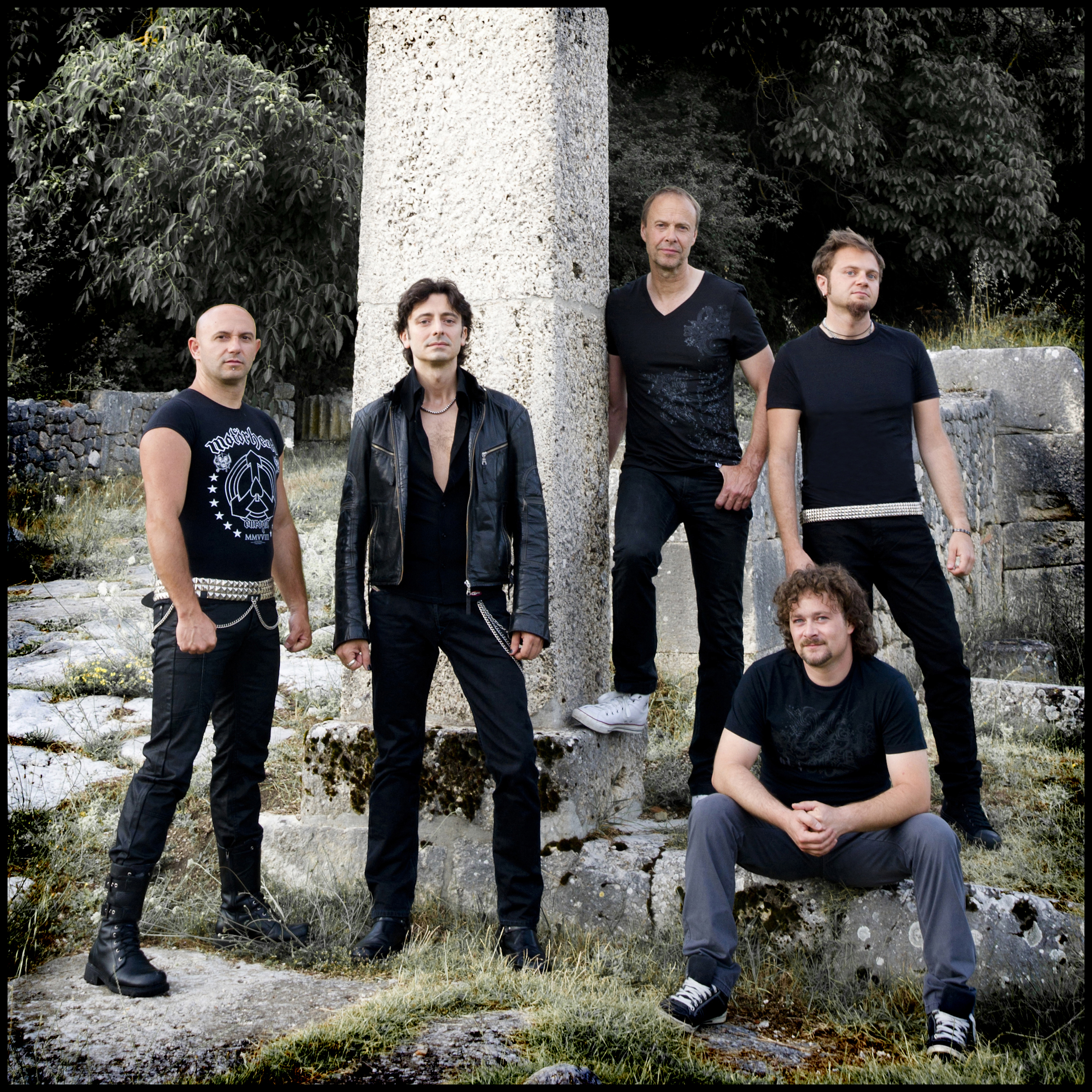 Melt The Ice Away